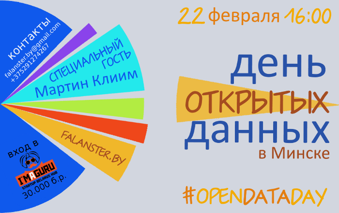 Дзень адктрытых дадзеных у Мінску, 22 лютага 2014